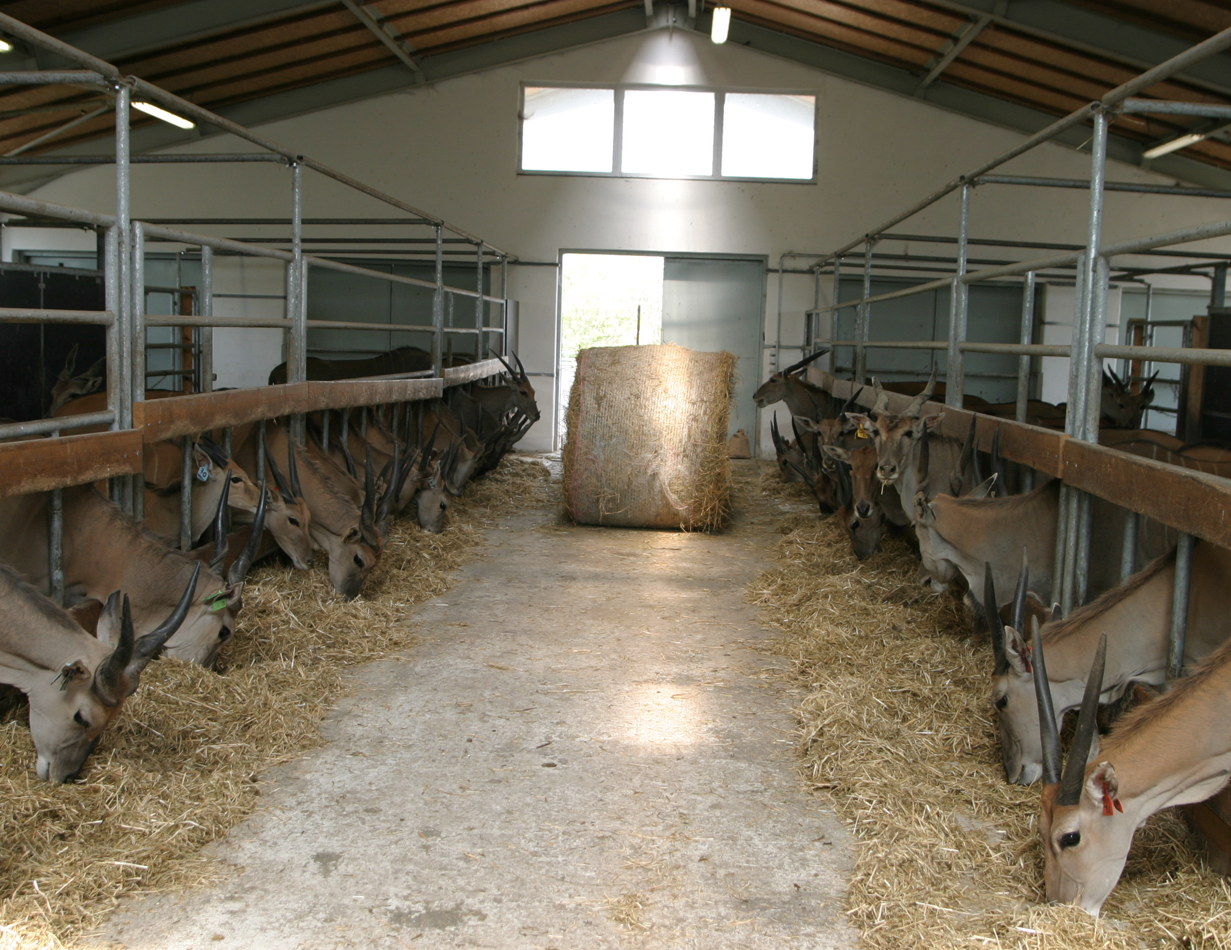 Elands has been bred under management of the Faculty of Tropical AgriSciences since 2006.